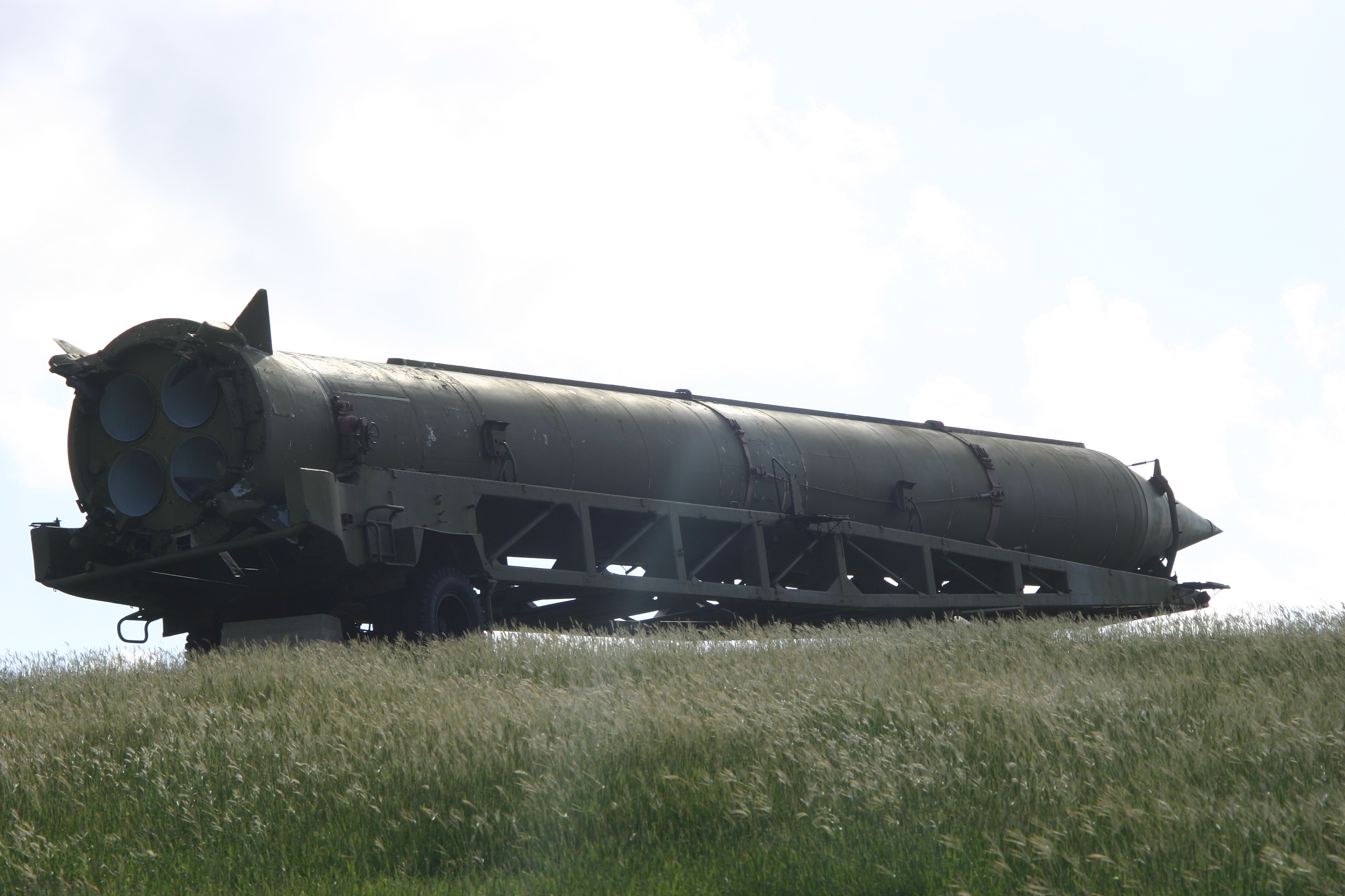 Havana, Cuba. Memorial near a military academy (probably Revolutionary Armed Forces Artillery School) in La Cabaña fortress. A deactiviated Soviet SS-4 (R-12 aka 8K63) MRBM being exhibited since late 1980s